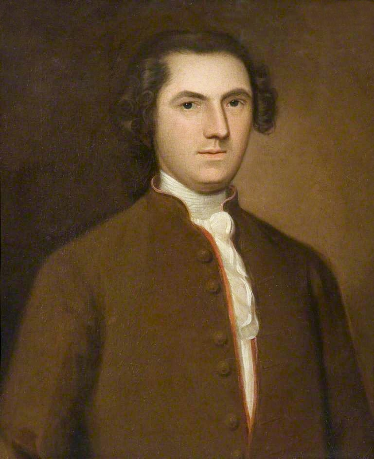 Photo of a portrait of Governor Edward Hyde of North Carolina